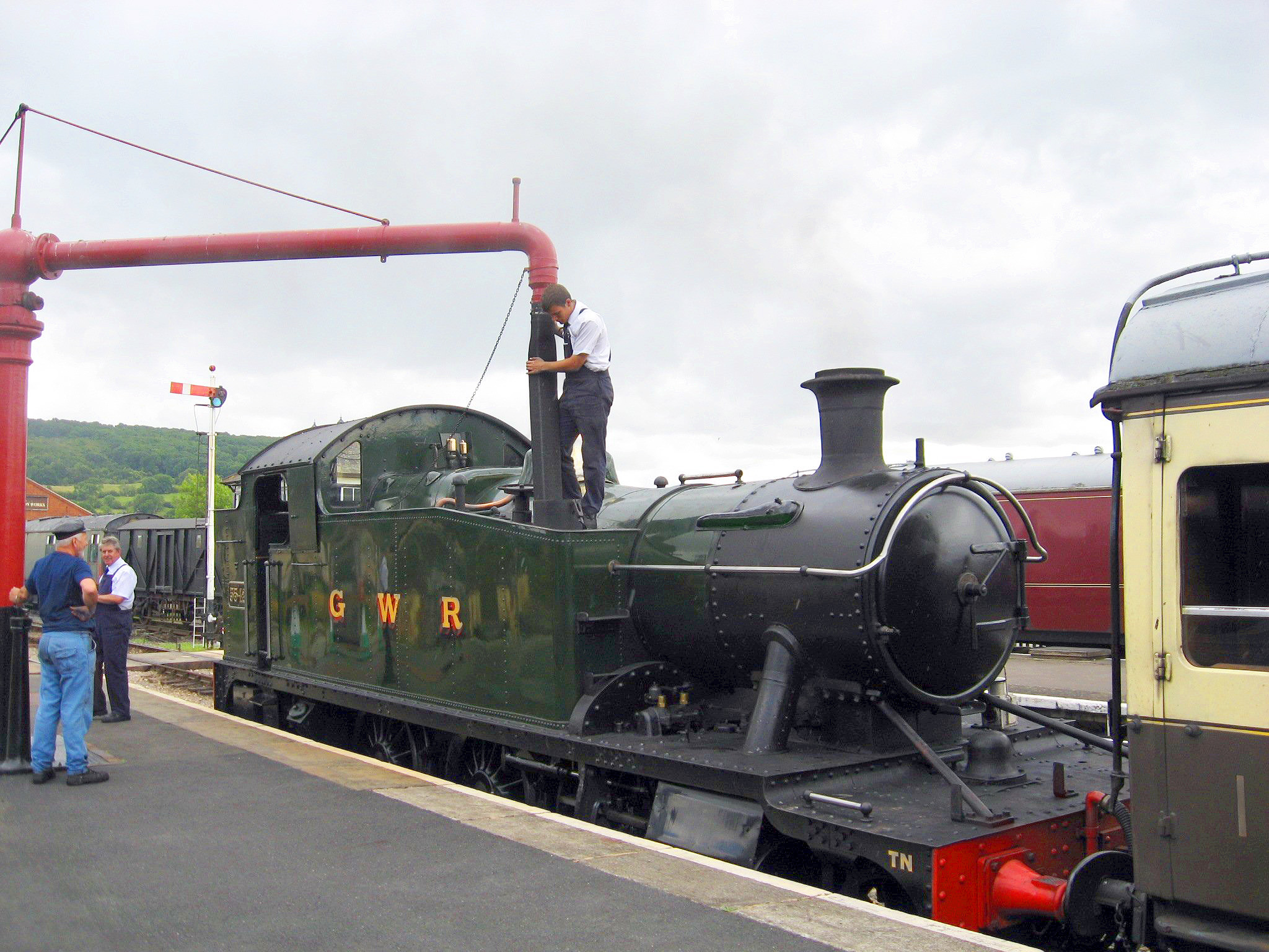 Filling up with water at Toddington, on the Gloucestershire-Warwickshire Railway